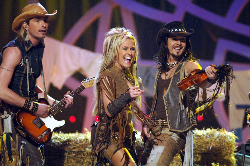 Picture of Rednex in concert.